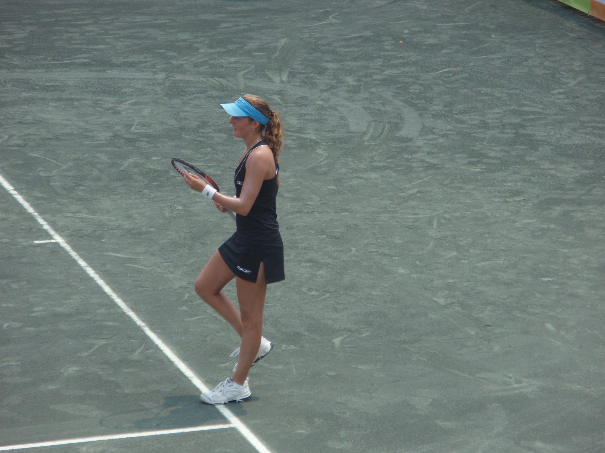 Shahar Peer playing in New City, New York in Kennedy Funding Invitational